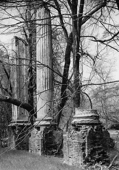 Millwood (Ruins), detail, U.S. Route 76 (Garners Ferry Road), Columbia vicinity (Richland County, South Carolina) This file comes from the Historic American Buildings Survey (HABS), Historic American Engineering Record (HAER) or Historic American Landscapes Survey (HALS). These are programs of the National Park Service established for the purpose of documenting historic places. Records consist of measured drawings, archival photographs, and written reports. When reusing please credit: Library of Congress, Prints & Photographs Division, SC,40-COLUM.V,1-2 This tag does not indicate the copyright status of the attached work. A normal copyright tag is still required. See Commons:Licensing. This work is in the public domain in the United States because it is a work prepared by an officer or employee of the United States Government as part of that person’s official duties under the terms of Title 17, Chapter 1, Section 105 of the US Code. Note: This only applies to original works of the Federal Government and not to the work of any individual U.S. state, territory, commonwealth, county, municipality, or any other subdivision. This template also does not apply to postage stamp designs published by the United States Postal Service since 1978. (See § 313.6(C)(1) of Compendium of U.S. Copyright Office Practices). It also does not apply to certain US coins; see The US Mint Terms of Use. This file has been identified as being free of known restrictions under copyright law, including all related and neighboring rights. This image or media file contains material based on a work of a United States Department of the Interior employee, created as part of that person's official duties. As a work of the U.S. federal government, such work is in the public domain in the United States. See the Department of the Interior copyright policy for more information.